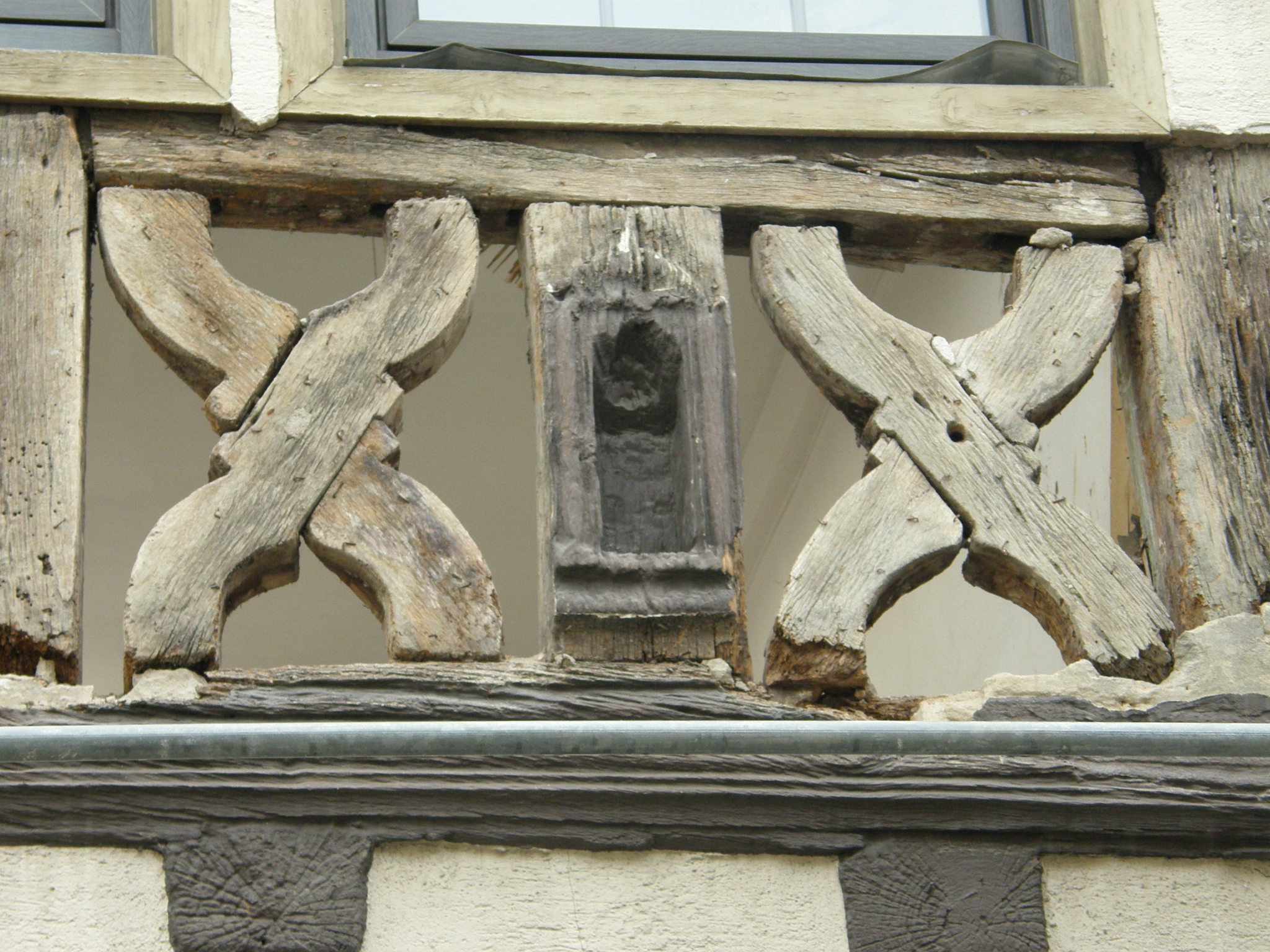 2* Saltire